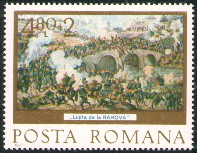 1977 Romanian Post, 4,80+2 lei, representing the painting Battle of Rahova